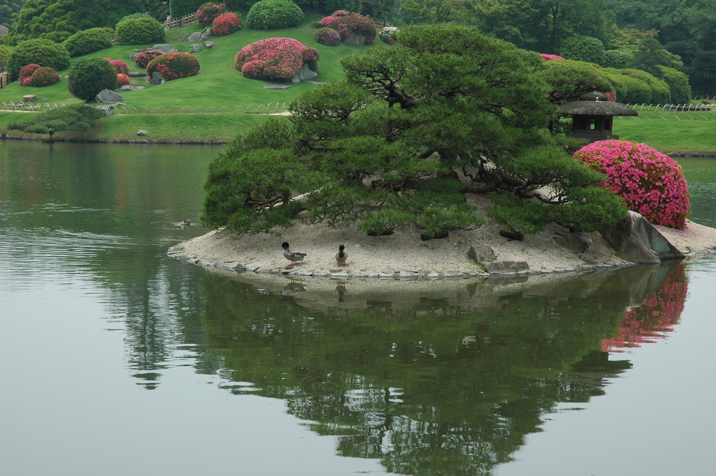 Jarijima island in Sawanoike pond